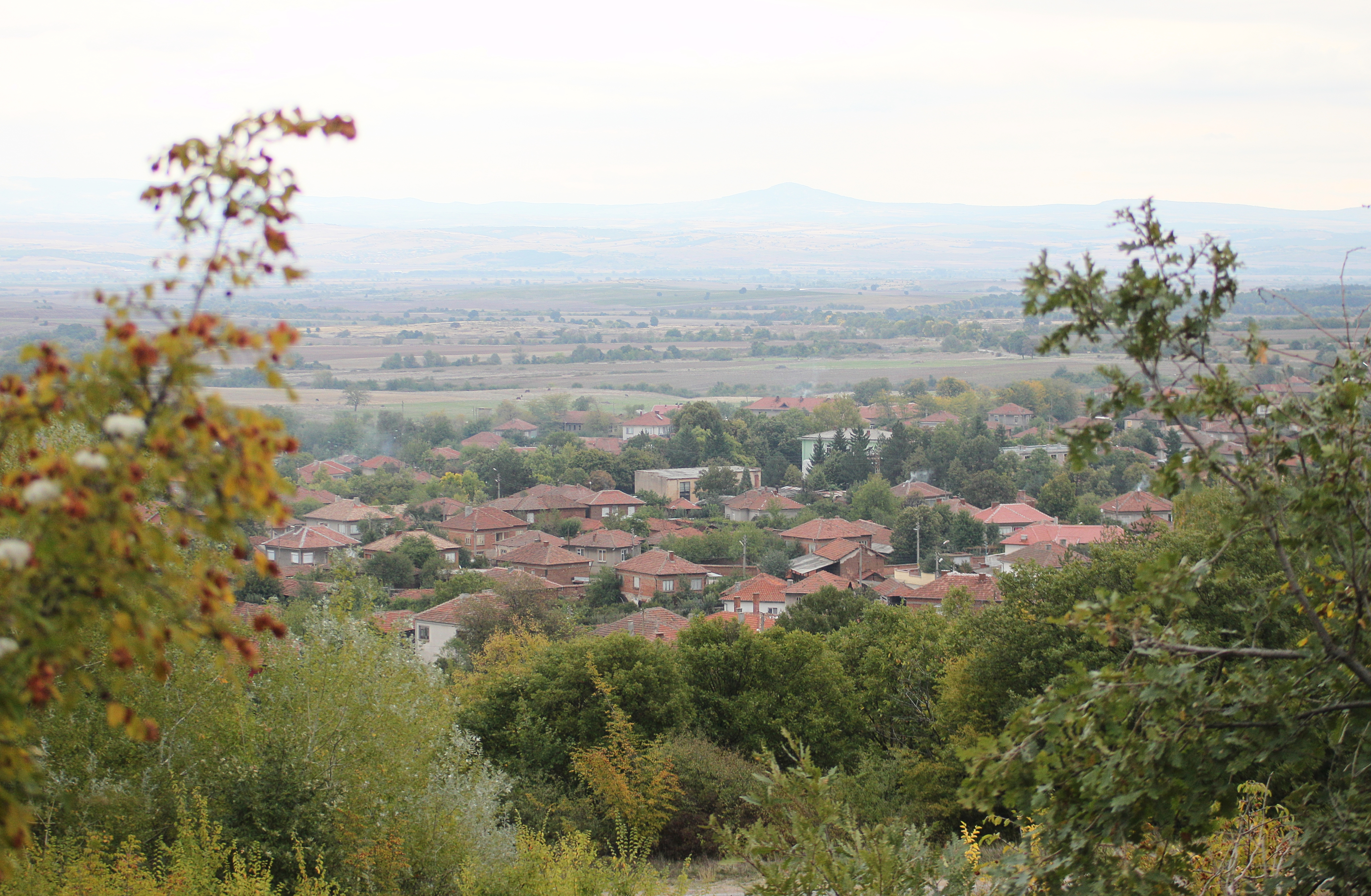 Malko Gradishte, a village in the Rhodope Mountains, Bulgaria